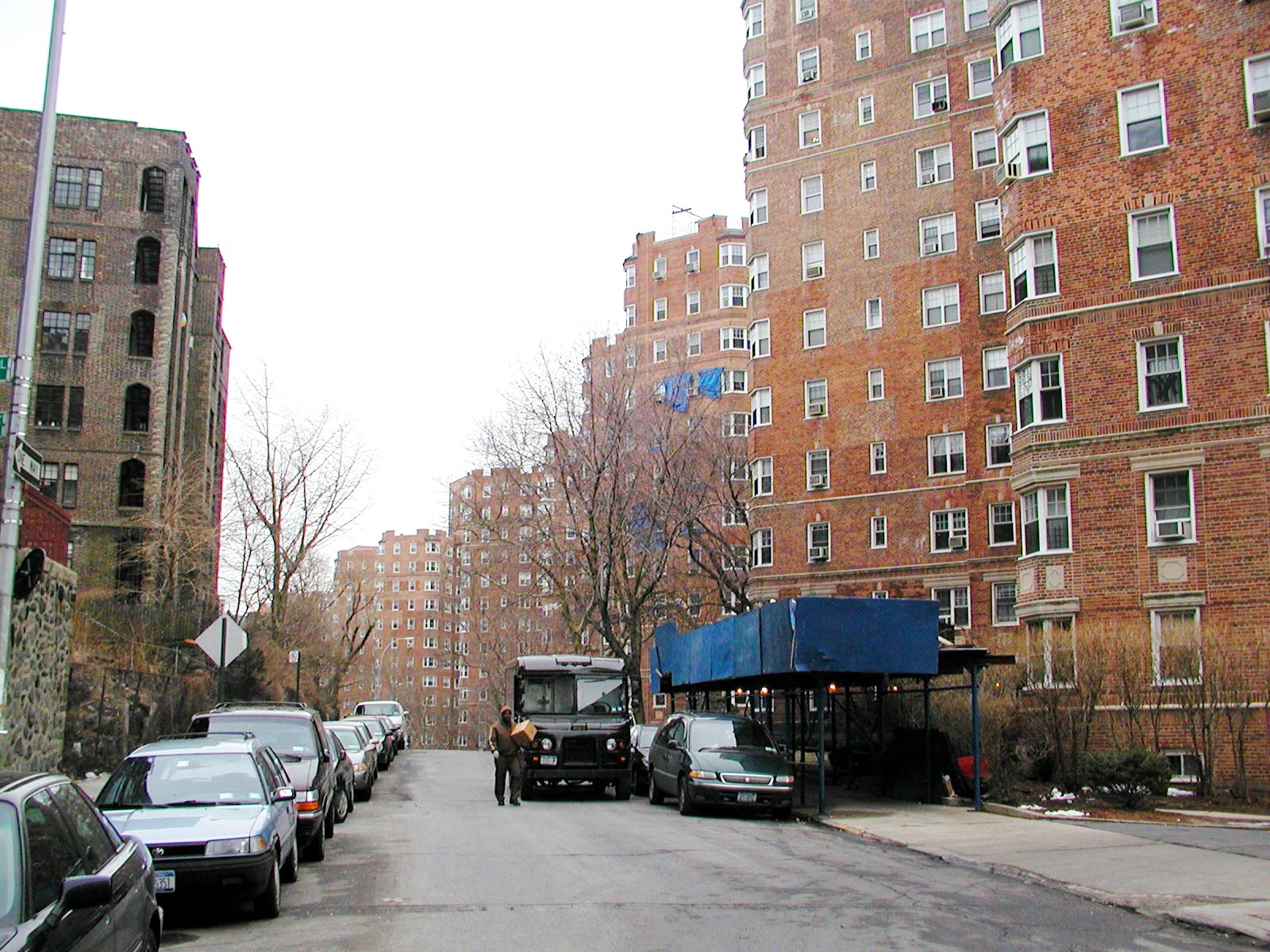 The Castle Village Castle Village in Hudson Heights neighborhood (a part of Washington Heights ) of Manhattan New York City, seen from Cabrini Boulevard. Picture taken in March 2005.